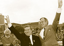 President George H. W. Bush with Poland's Lech Wałęsa (center) and First Lady Barbara Bush in Poland, July 1989. That remarkable year saw the end of the Cold War, as well as the end to the 40-year division of Europe into hostile East and West blocs. .